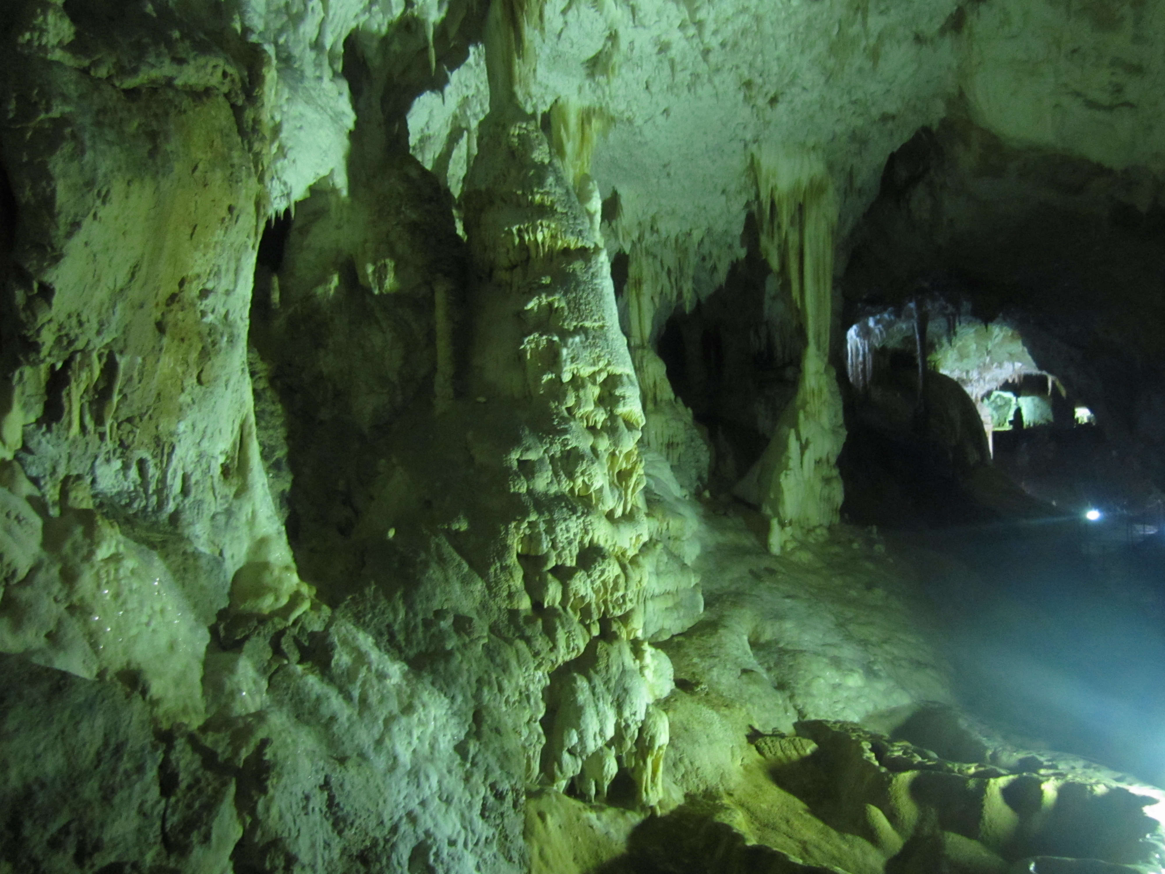 СП317